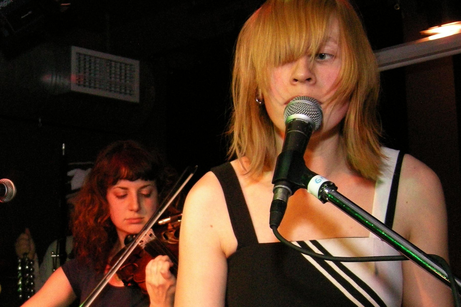 Kat Burns (right) and Mika Posen of the Forest City Lovers, performing on 13 March 2008 at a CD release at the E-Bar in Guelph, Ontario.